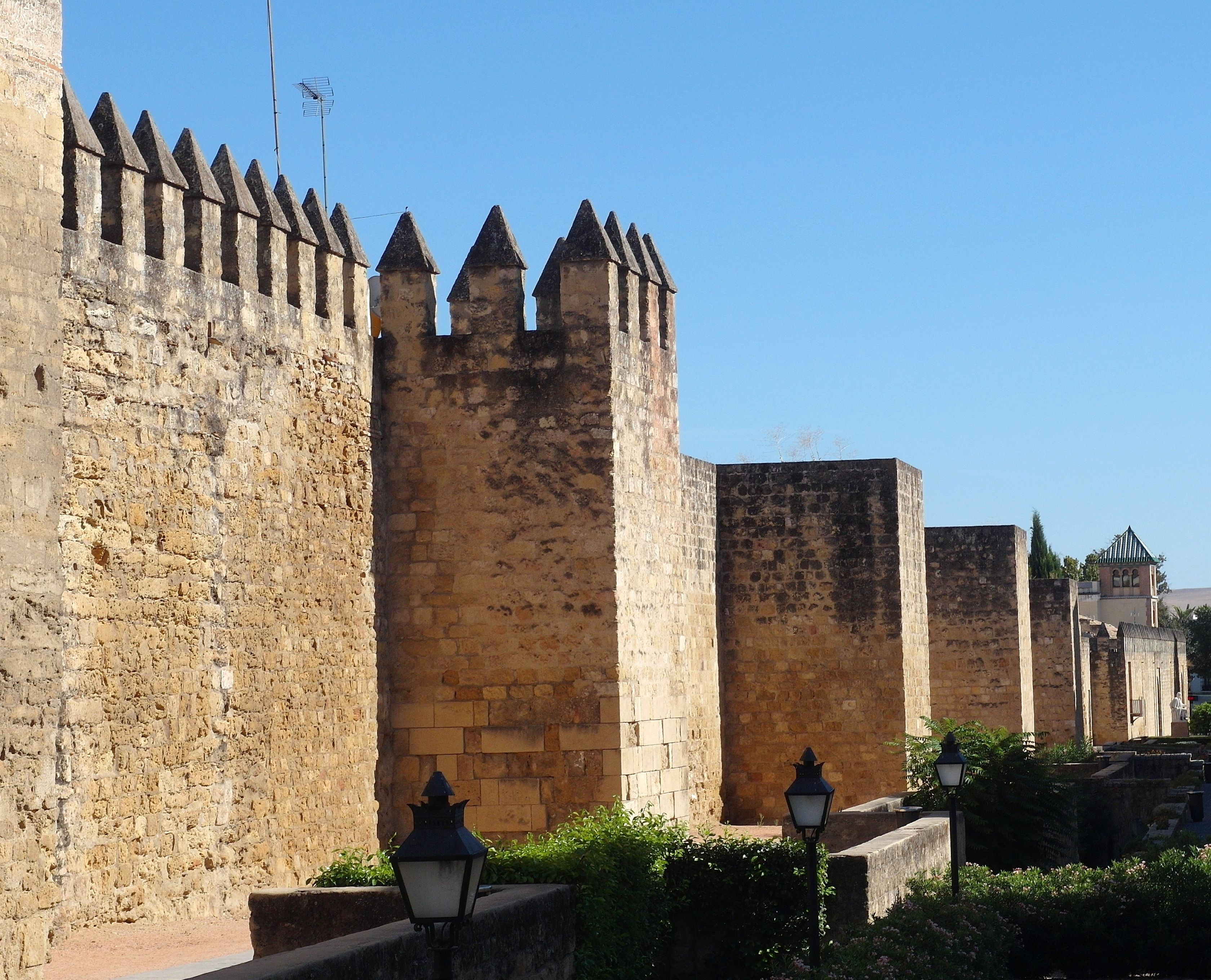 Defensive wall of Córdoba, Spain